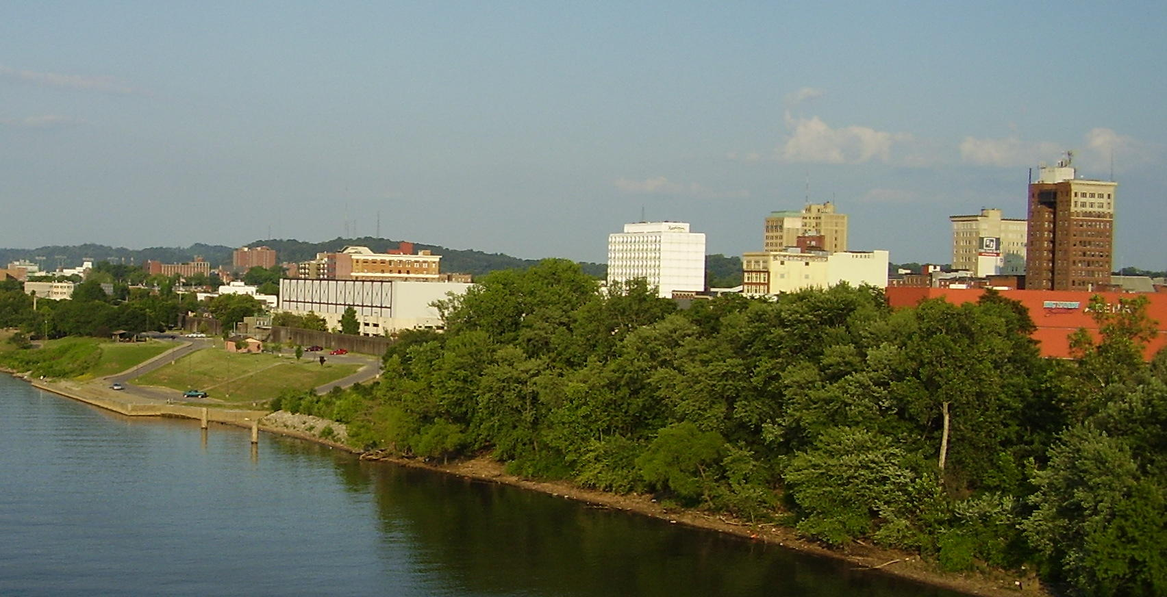 Self-made photo of the skyline of Huntington, WV taken from the Robert C. Byrd Bridge on June 14, 2006.